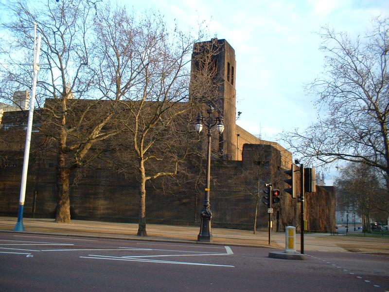 Admiralty Citadel, the mall, London. Taken by C Ford 7th March 04.